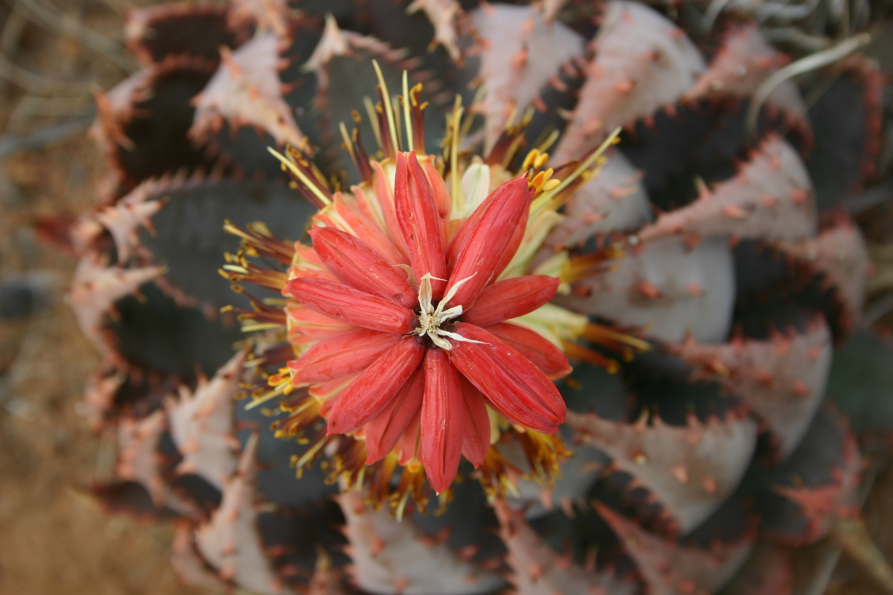 Aloe peglerae Schonl. from Magaliesberg, South Africa